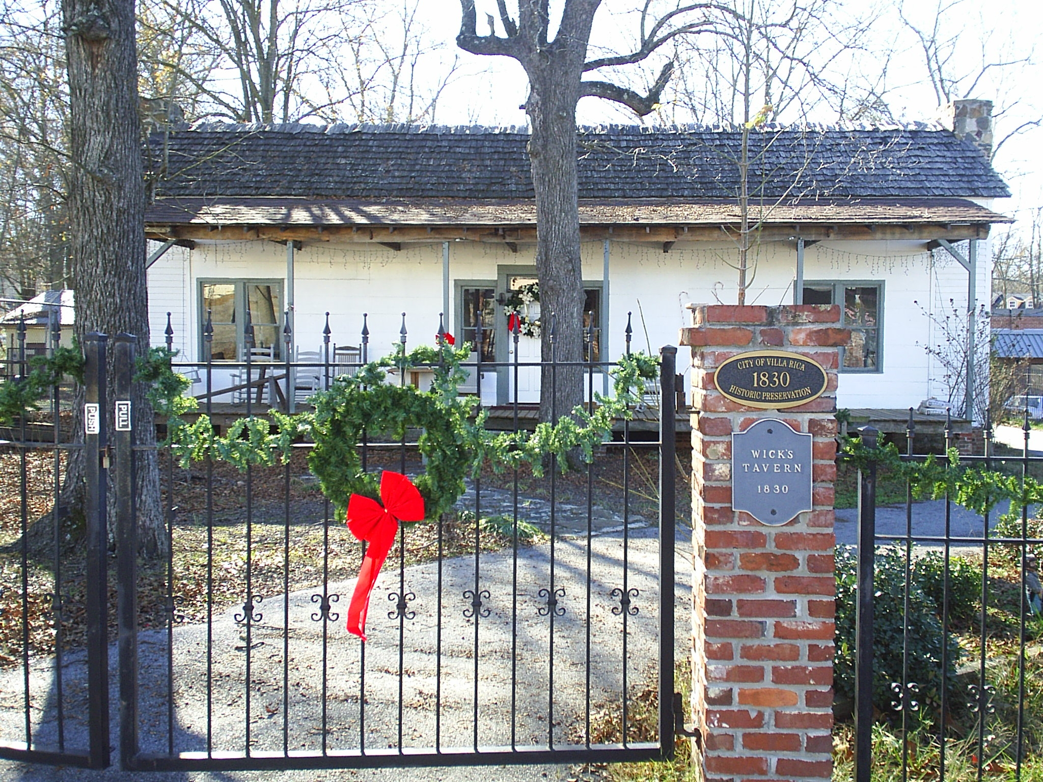 Wicks Tavern (1830), the oldest commercial structure still standing in West Georgia, Christmas 2007